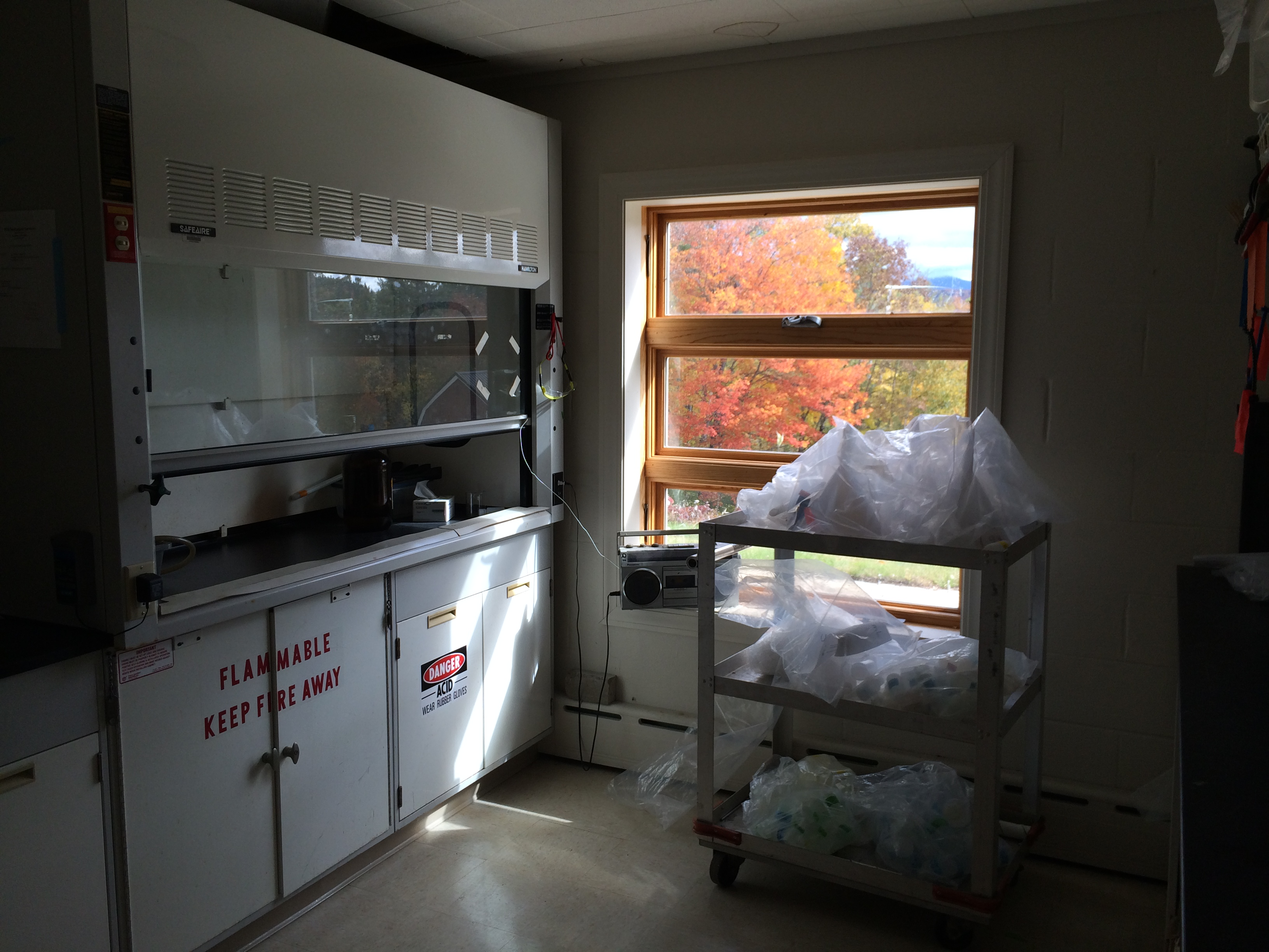 Photograph of Gene Likens' experimental laboratory at Hubbard Brook Experimental Forest.